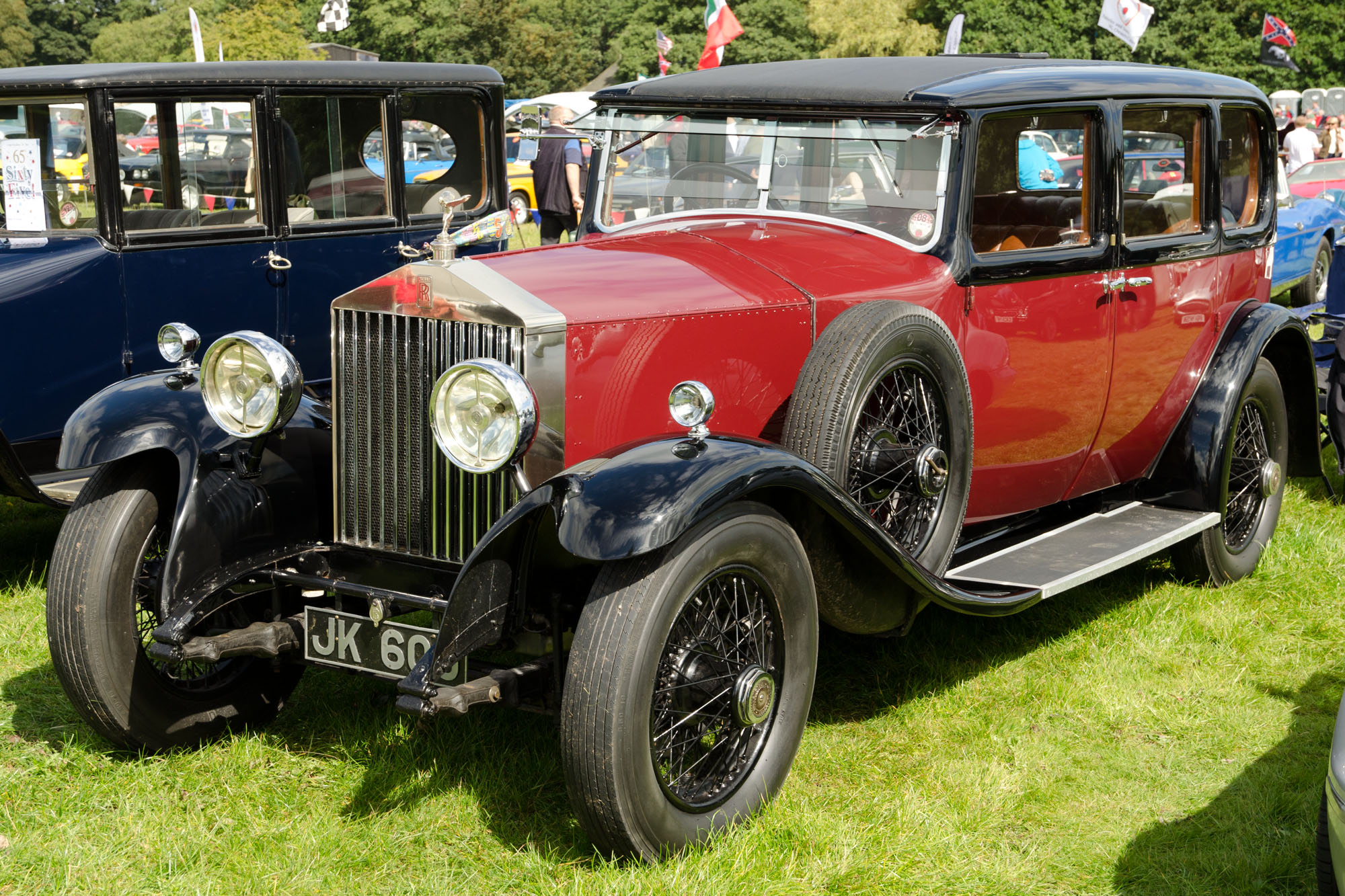 1929 Rolls Royce 20 by Caffyns of Eastbourne(DVLA) first registered 30 September 1929, 3103 cc Cholmondeley Classic Car Show 31/08/2014